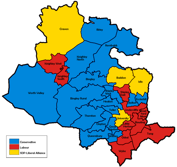 Ward map of Bradford Council with political colouring for the 1982 election.